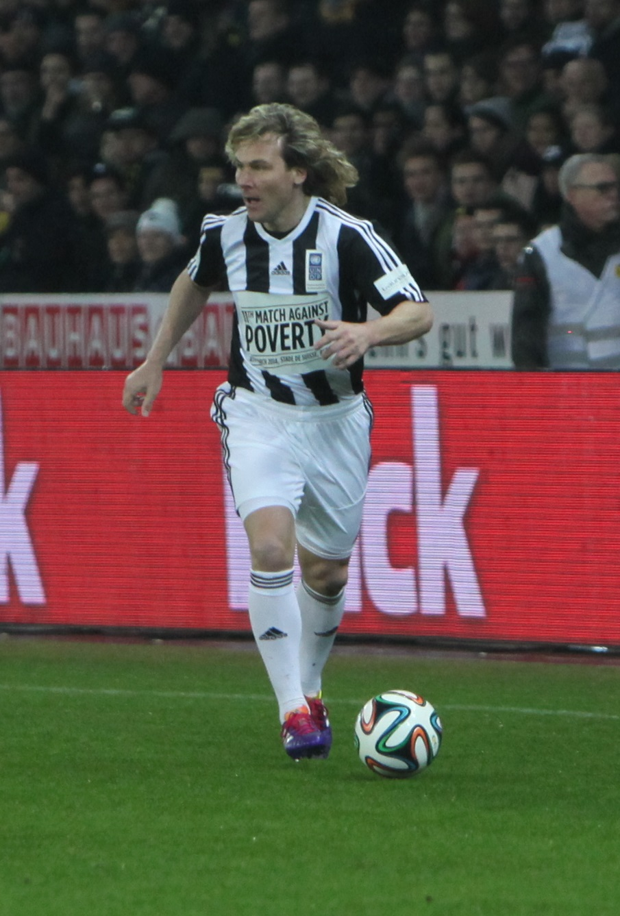 Football against poverty 2014 - Pavel Nedved